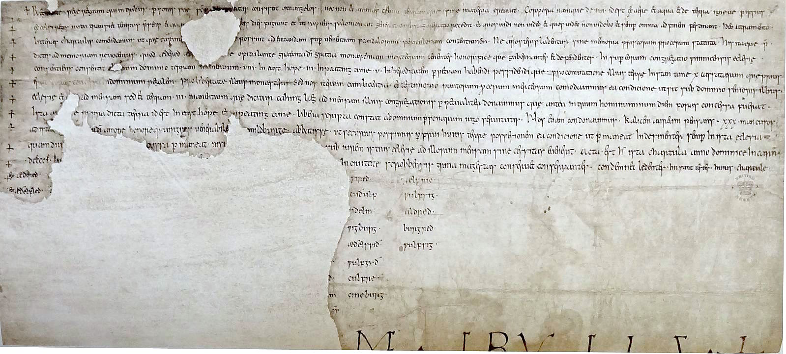 Charter S 221, dated 901, of Æthelred and Ætheflæd, rulers of the Mercians photographed by Dudley Miles from E A Bond, Facsimilies of Ancient Charteres in the British Museum, Part III, 1877